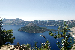 My photo of Crater Lake